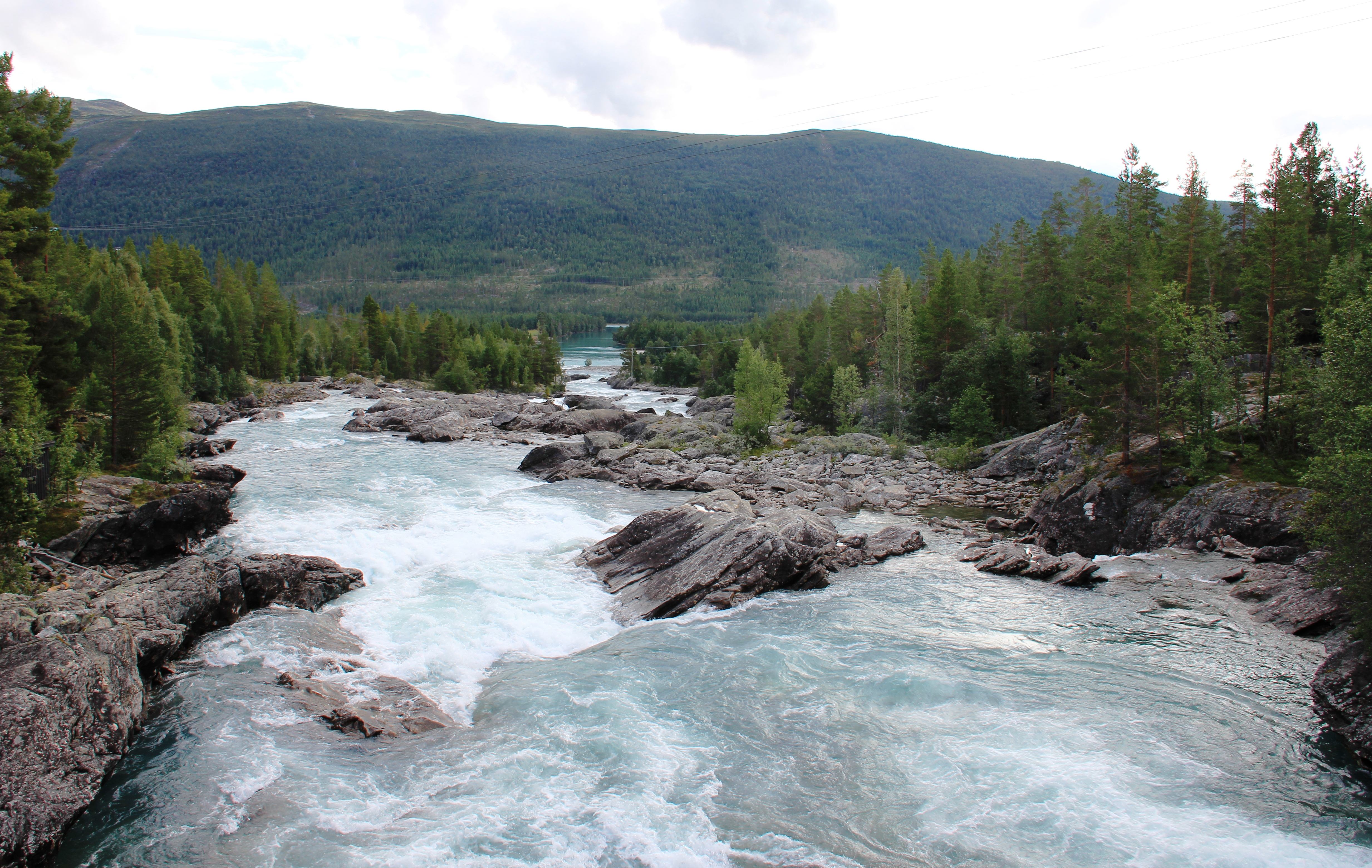 Pollfossen river in a series of waterfalls by Skjåk in Oppland, Norway